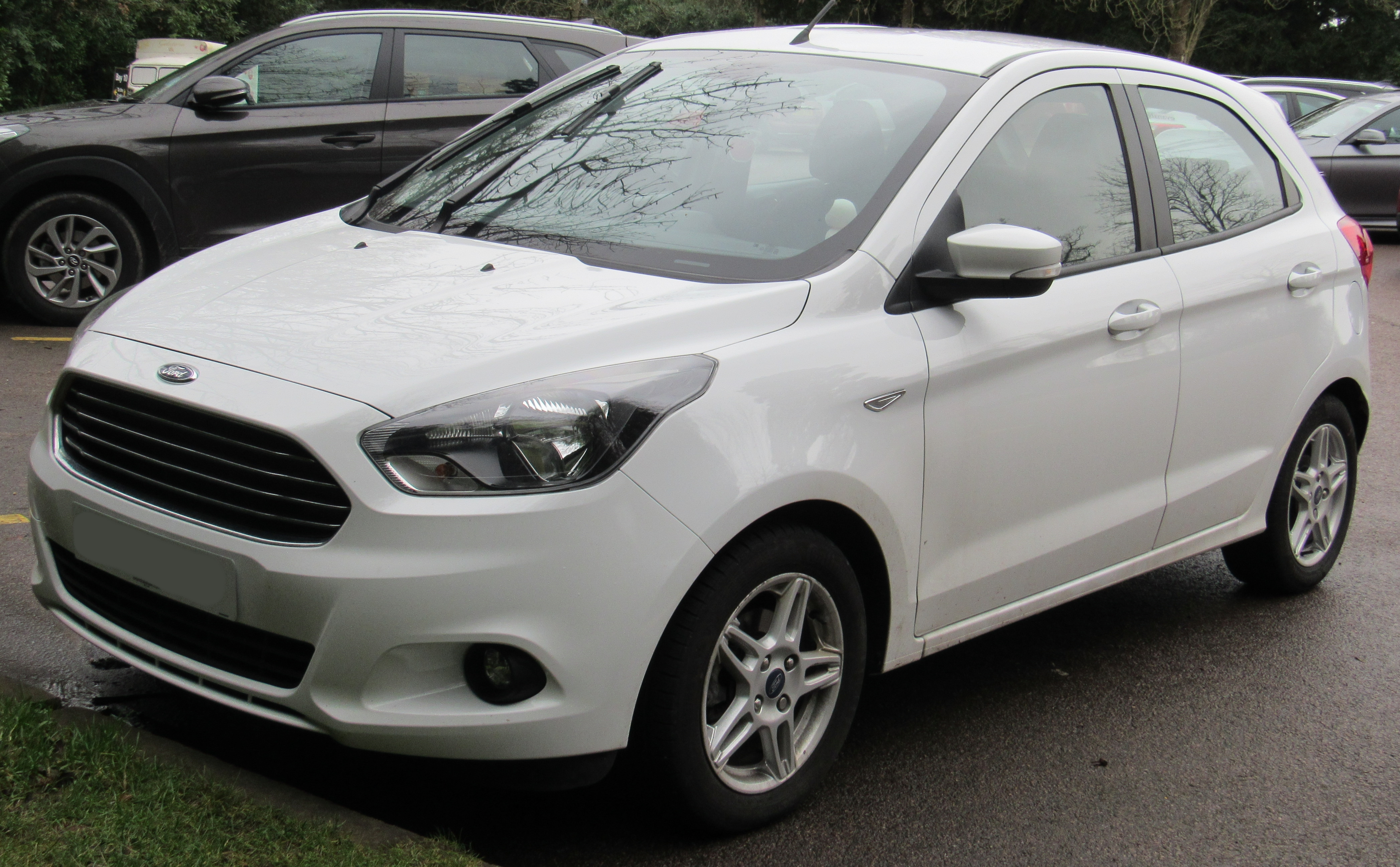 2017 Ford KA+ Zetec 1.2 Front Taken in Warwick